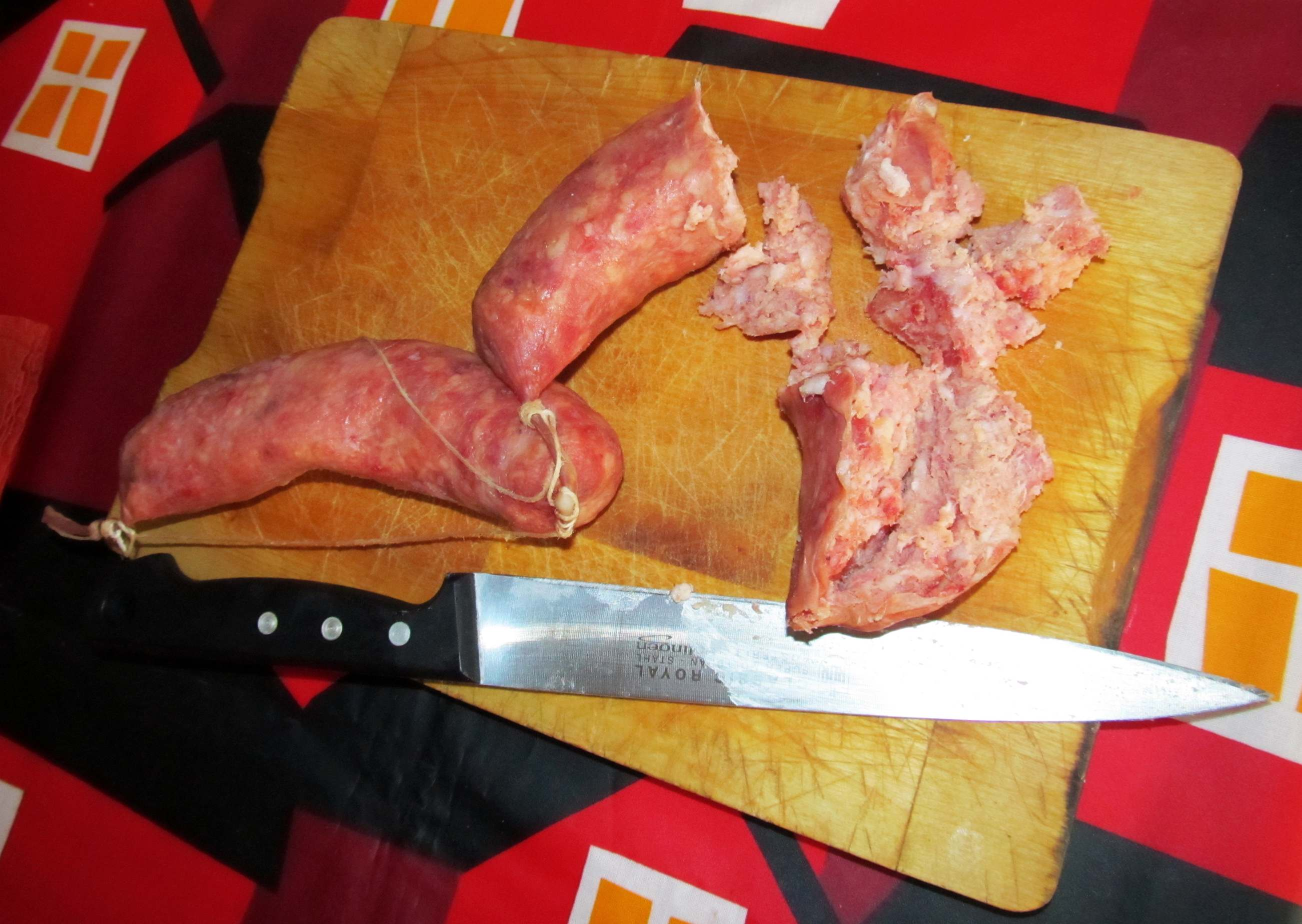 Salame di patate (potatoes salami, a traditional piedmontese food)Piemontèis: Salampatata